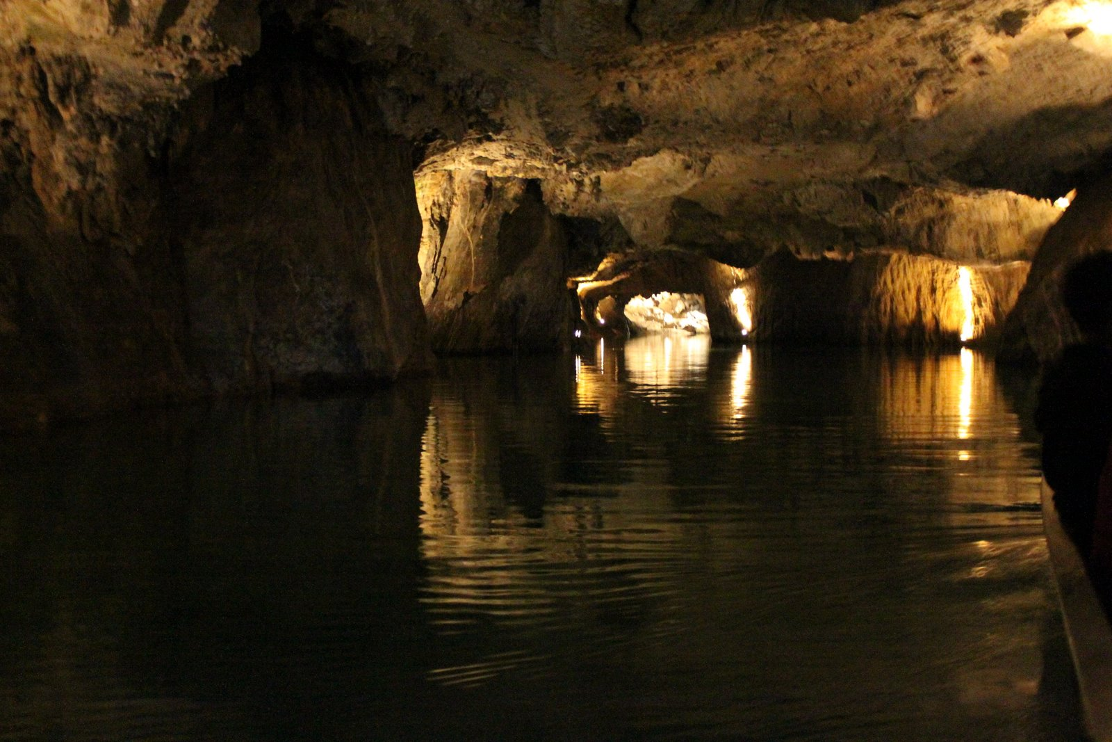 The underground lake of Saint Léonard. Picture taken from the tour boat, near the entrance.